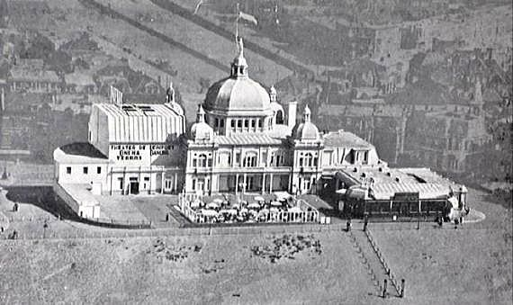 Seinpost café-restaurant-filmtheater in Scheveningen